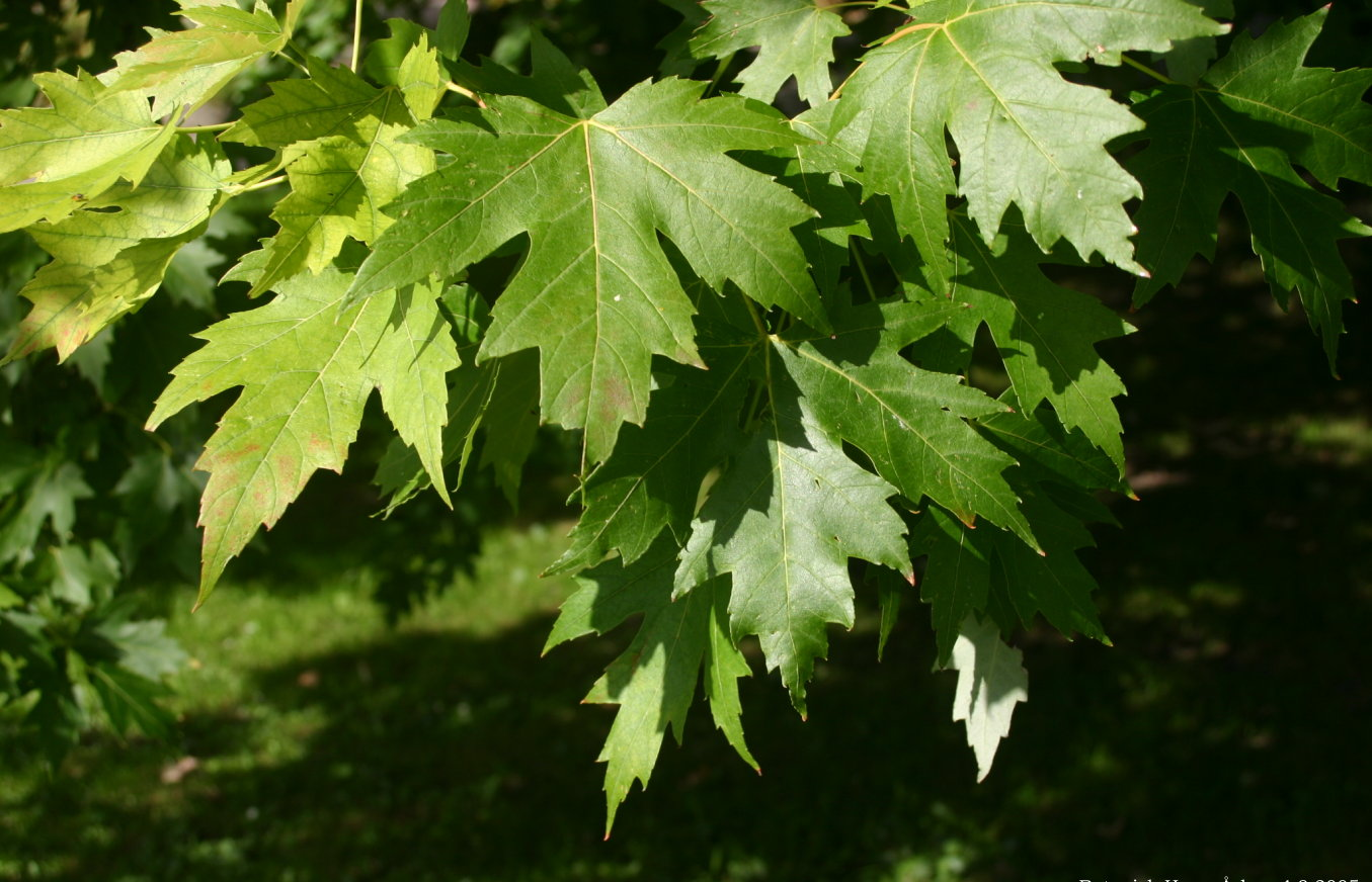 Acer saccharinum: Leaves.